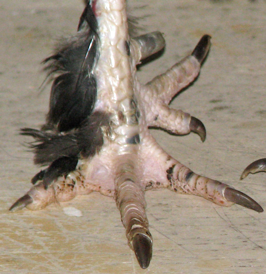 Closeup photo of our mixed breed (part Silkie) rooster Pasquale's feet, demonstrating Polydactyly ((Po) locus) in the common chicken / poultry. This photo was originally posted at